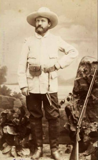 Picture of Gustavo Bianchi